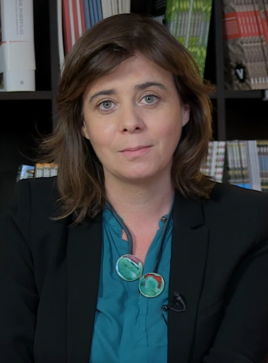 Catarina Martins in 2016